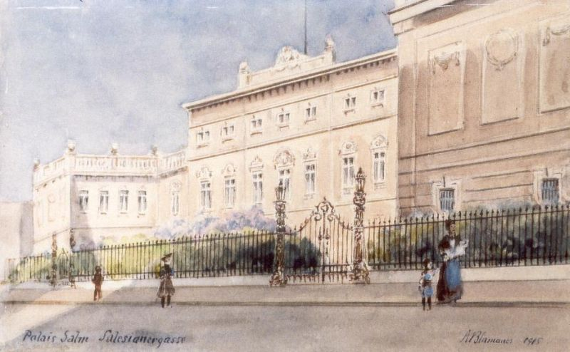 Palais Salm-Vetsera in Landstrasse, Vienna.